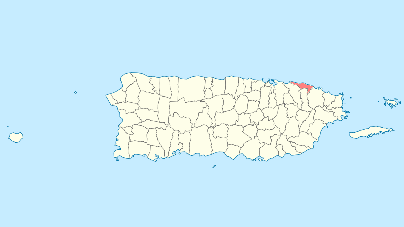 Municipal locator of Puerto Rico